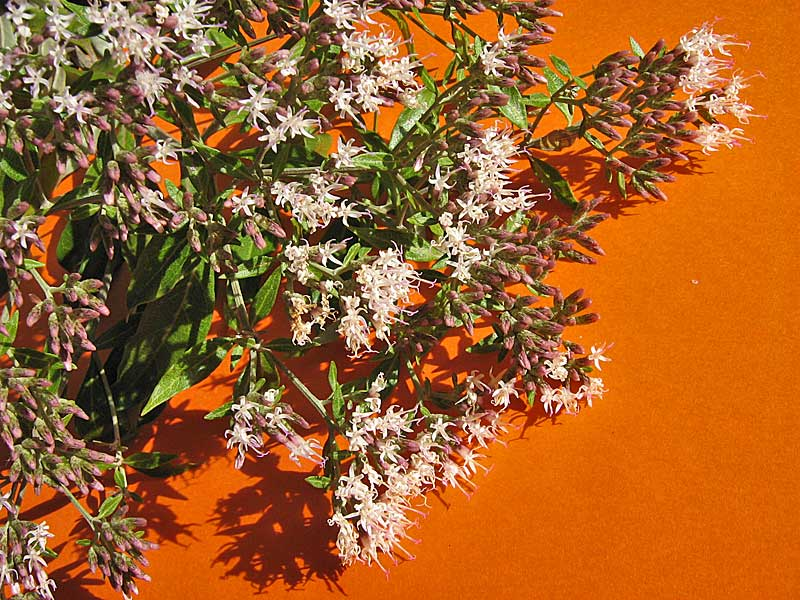 Eremanthus capitatus (Spreng.) MacLeish